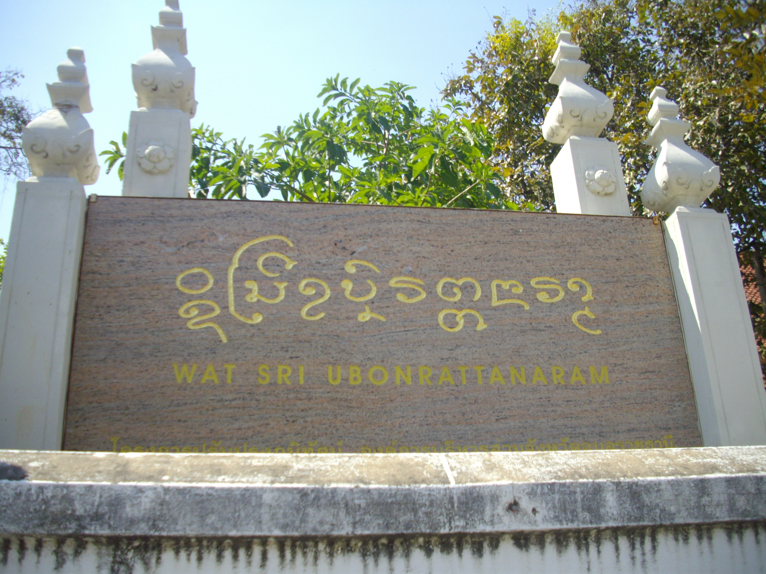 A sign of Wat Sri Ubon Rattanaram, Ubon Ratchathani province, Northeastern of Thailand. The name of this temple was inscribed in Thai Languages with Esan Dhamma script and English language. The Esan Dhamma Script is the name of that used in Northeastern of Thailand, called "Lao Dhamma Script" in Laos. This was used for religion texts in the ancient Kingdom of Lan Xang, originally based on the Lanna Script or "Tua Muang".